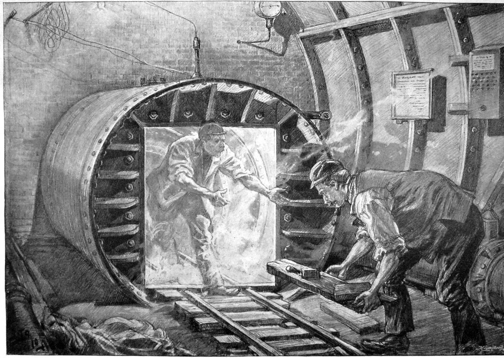 The air lock used during compressed air working on the Waterloo and CIty Railway in London England 1895